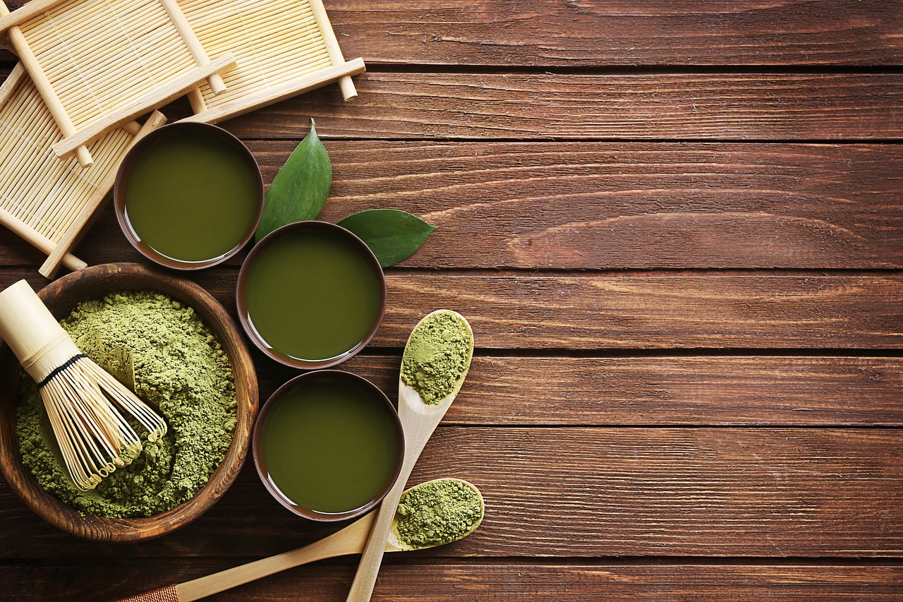 Picture of matcha powder in bowl with other cups of matcha